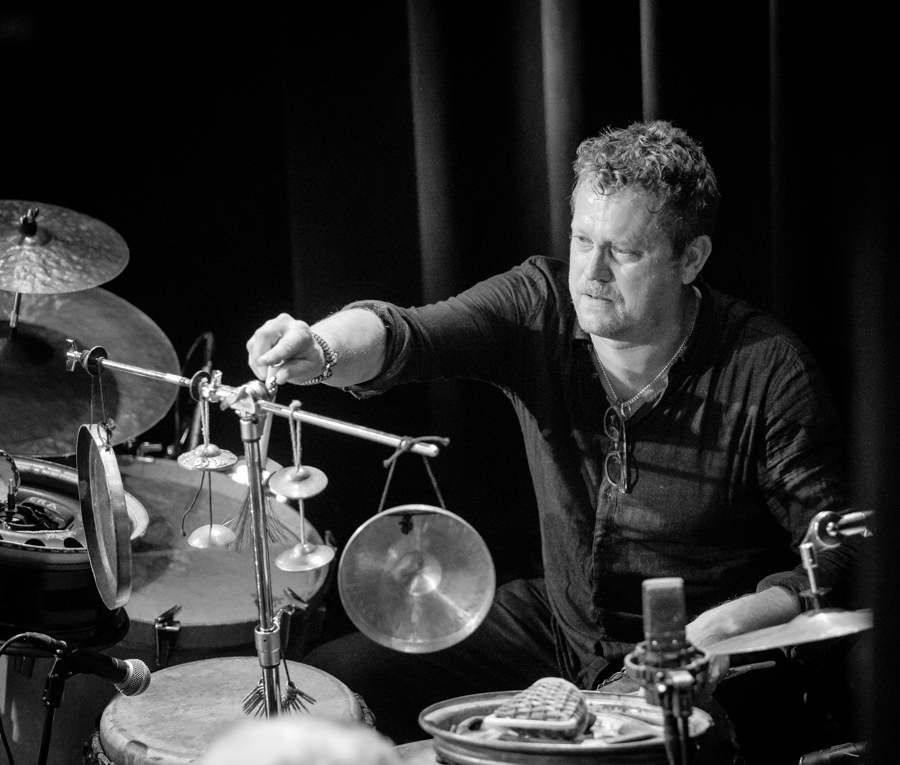 Helge Andreas Norbakken with Daniel Herskedal at Victoria Teater. The concert took place on 07. December 2017 in Oslo. Lineup:Daniel Herskedal (tuba and trumpet)Eyolf Dale (piano)Helge Andreas Norbakken (percussion)Bergmund Waal Skaslien (viola)John Ehde (cello)